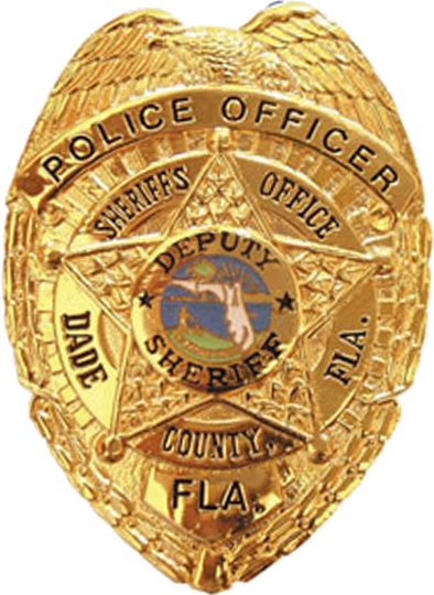 Badge of the Miami-Dade Police Department